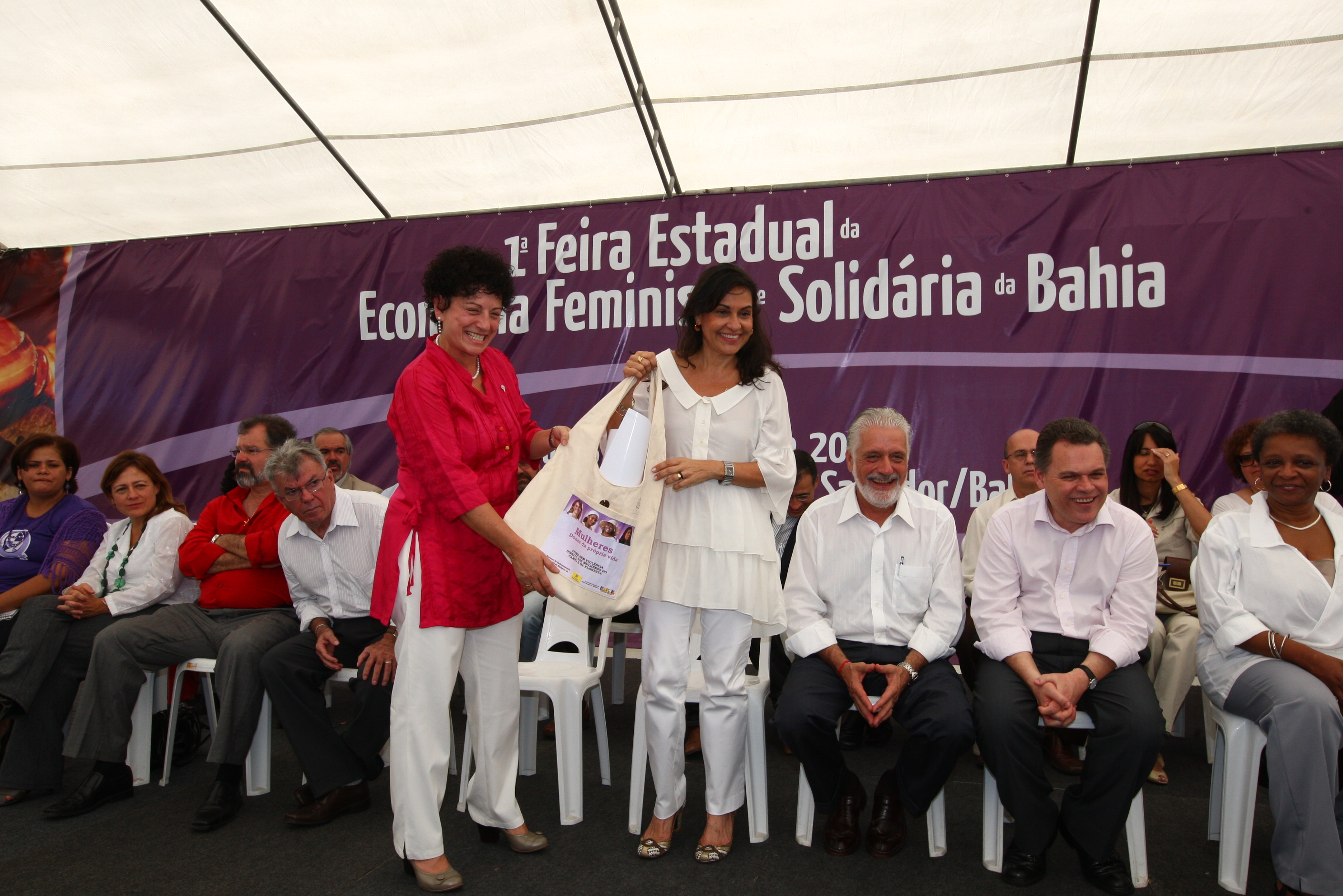 Governor of Bahia, Brazil, attending the first women's business conference Governador Jaques Wagner participa da 1ª Feira Estadual de Economia Feminista e Solidária Feira Estadual da Economia Feminista e Solidária da Bahia. na Pituba. Na foto:. Foto Manu Dias/AGECOM